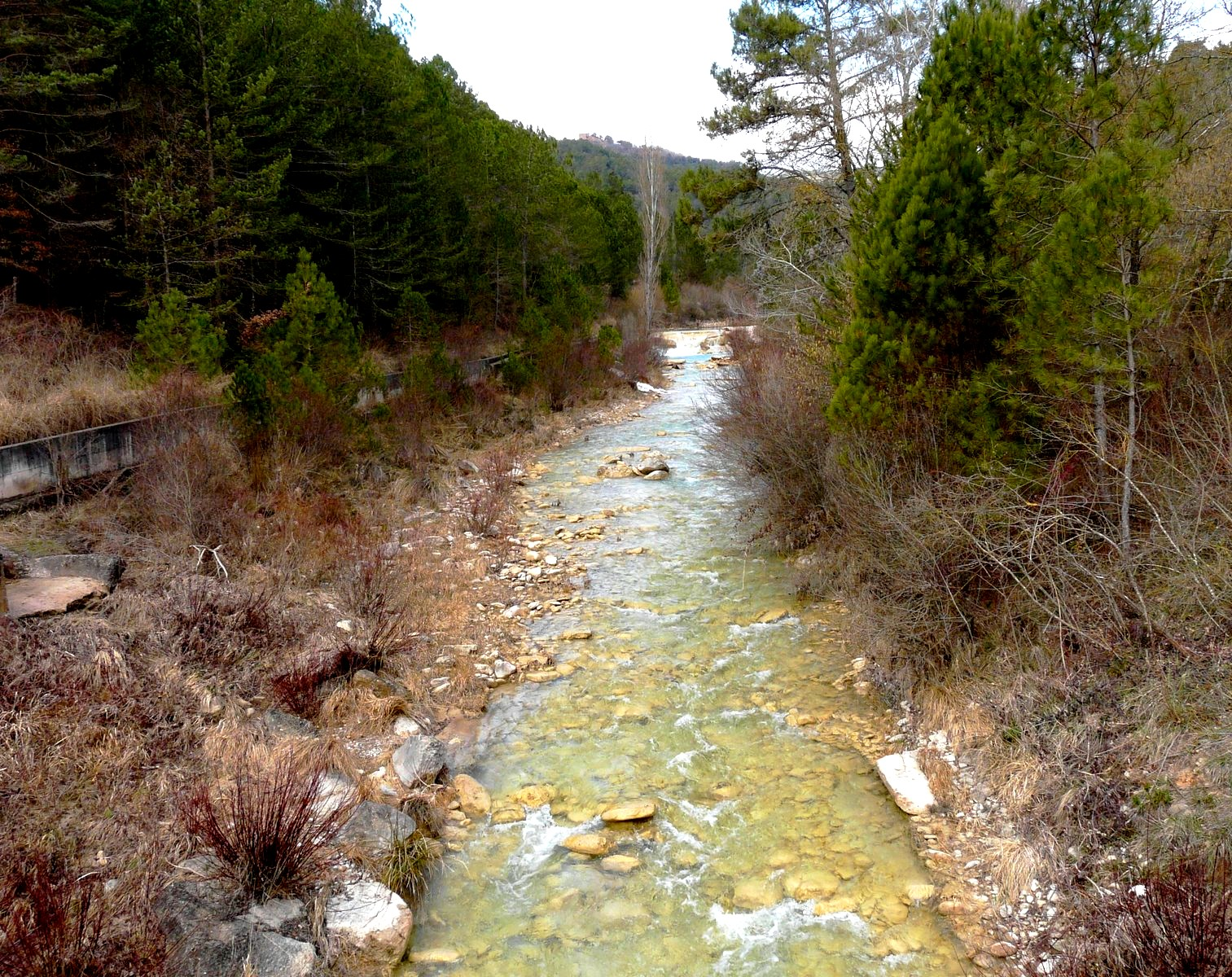 Views of Rialb River